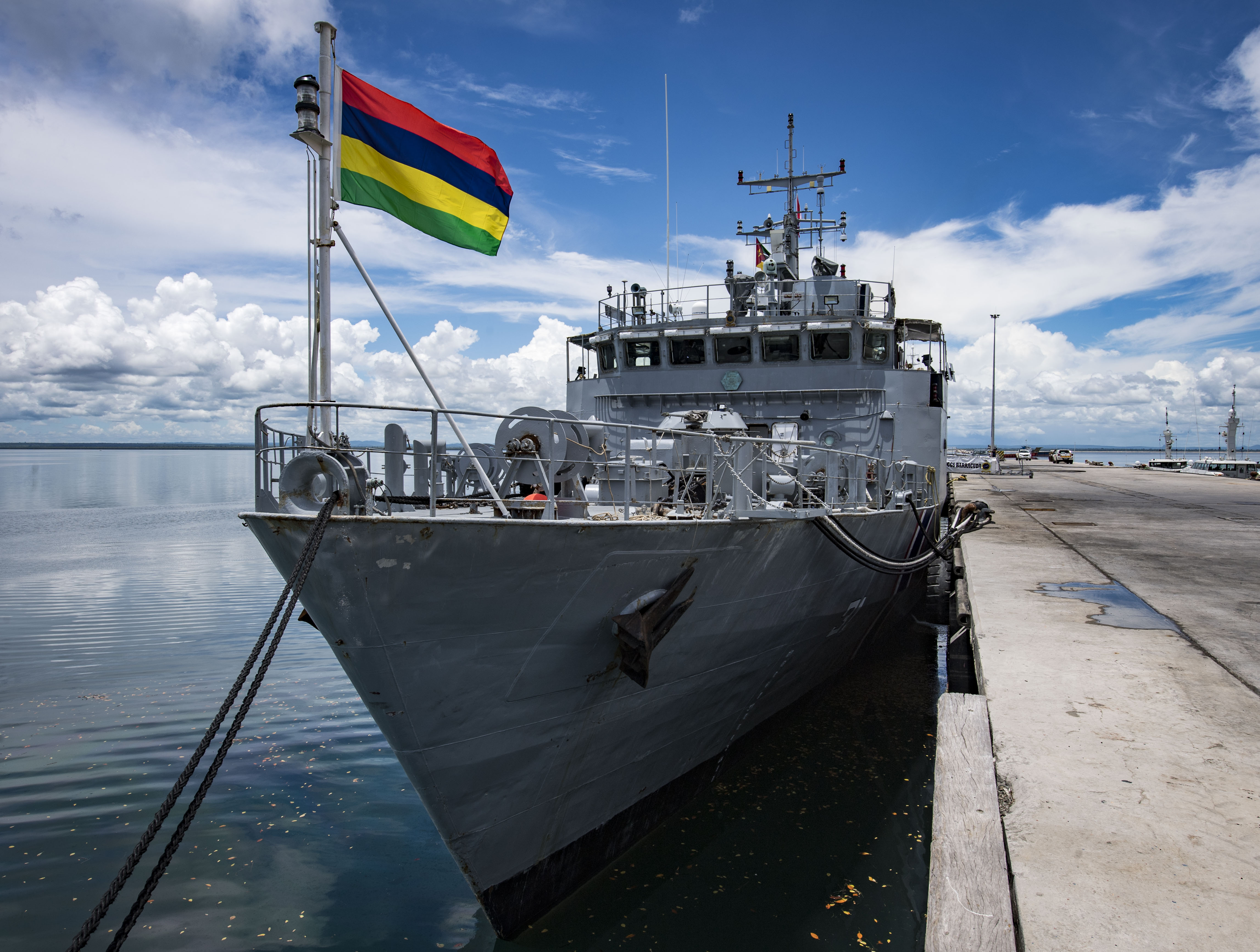 The National Coast Guard Mauritius Kora-class offshore patrol vessel MCGS Barracuda (CG-31) sits in port in Pemba, Mozambique, during exercise "Cutlass Express 2019", on 4 February 2019. "Cutlass Express" was designed to improve regional cooperation, maritime domain awareness and information sharing practices to increase capabilities between the U.S., East African and Western Indian Ocean nations to counter illicit maritime activity.